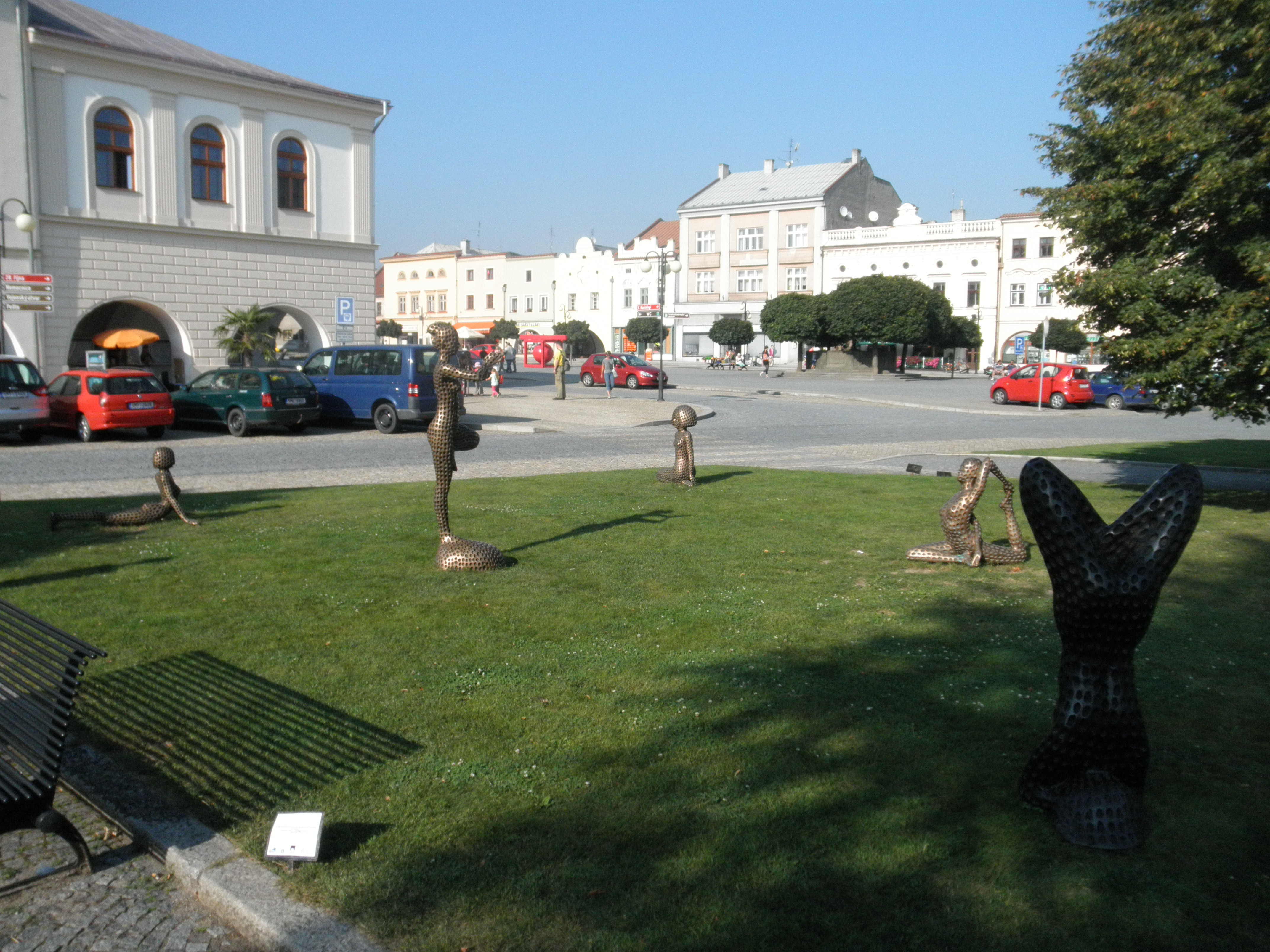 Sculpture Yogini by Michal Gabriel in Lipník nad Bečvou, Czech Republic from ????.